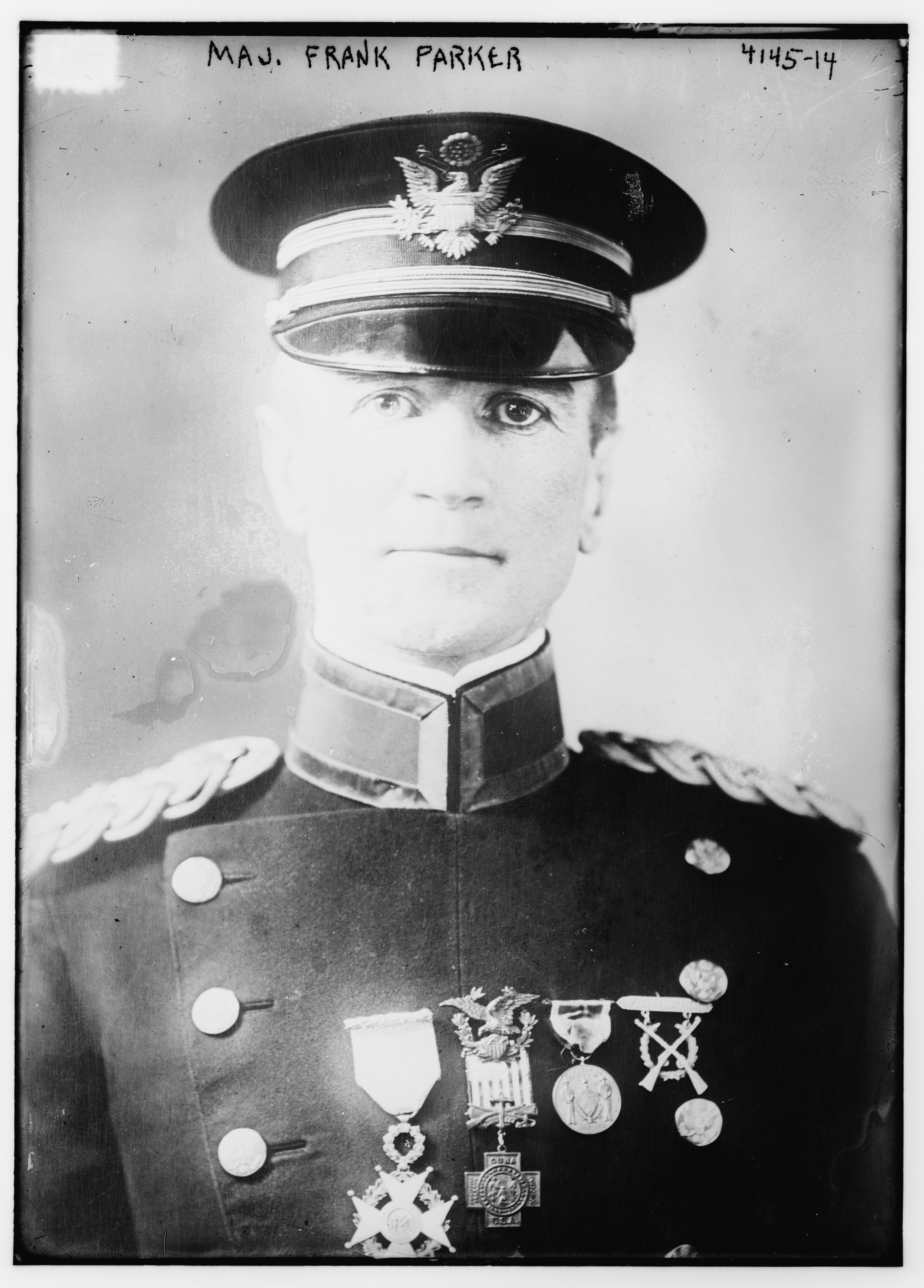 Frank Parker (general) in 1917